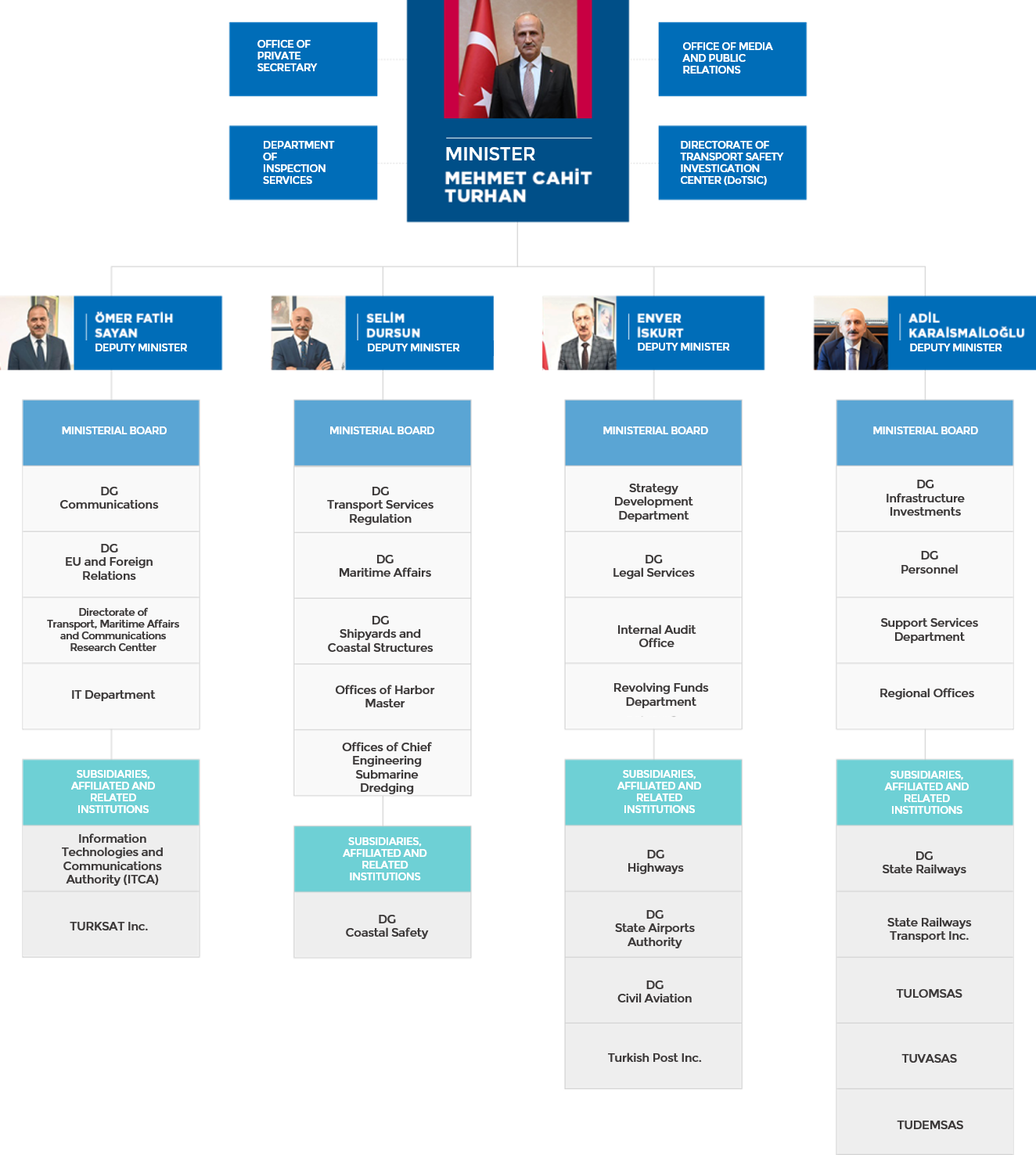 Organizational Chart of the Turkish Ministry of Transport and Infrastructure